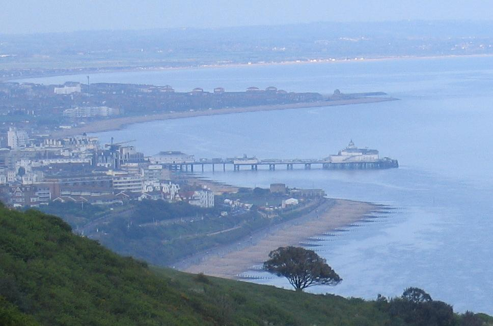 Eastbourne, East Sussex, as viewed from Beachy Head. Sat Apr 30, 2005.